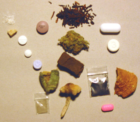 An arrangement of psychoactive drugs including (counter-clockwise from top left): cocaine Crack cocaine methylphenidate (Ritalin) ephedrine MDMA (Ecstasy - lavender pill with smile) mescaline (green dried cactus flesh) LSD (2x2 blotter in tiny baggie) psilocybin (dried Psilocybe cubensis mushroom) Salvia divinorum (10X extract in small baggie) diphenhydramine (Benadryl - pink pill) Amanita muscaria (red dried mushroom cap piece) Tylenol #3 (contains codeine, paracetamol) codeine containing muscle relaxant pipe tobacco (top) bupropion (Zyban - brownish-purple pill) cannabis (green bud center) hashish (brown rectangle)